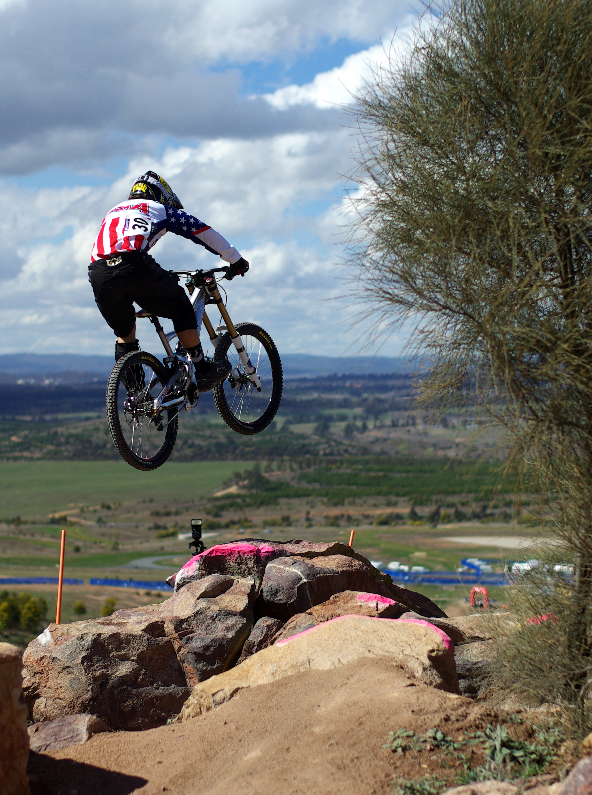 Cross-country mountain biking: Competitors in downhill events at the 2009 UCI Mountain Bike and Trials World Championships held at Mount Stromlo, near Canberra, Australia. Luke Strobel, USA (Men's elite)